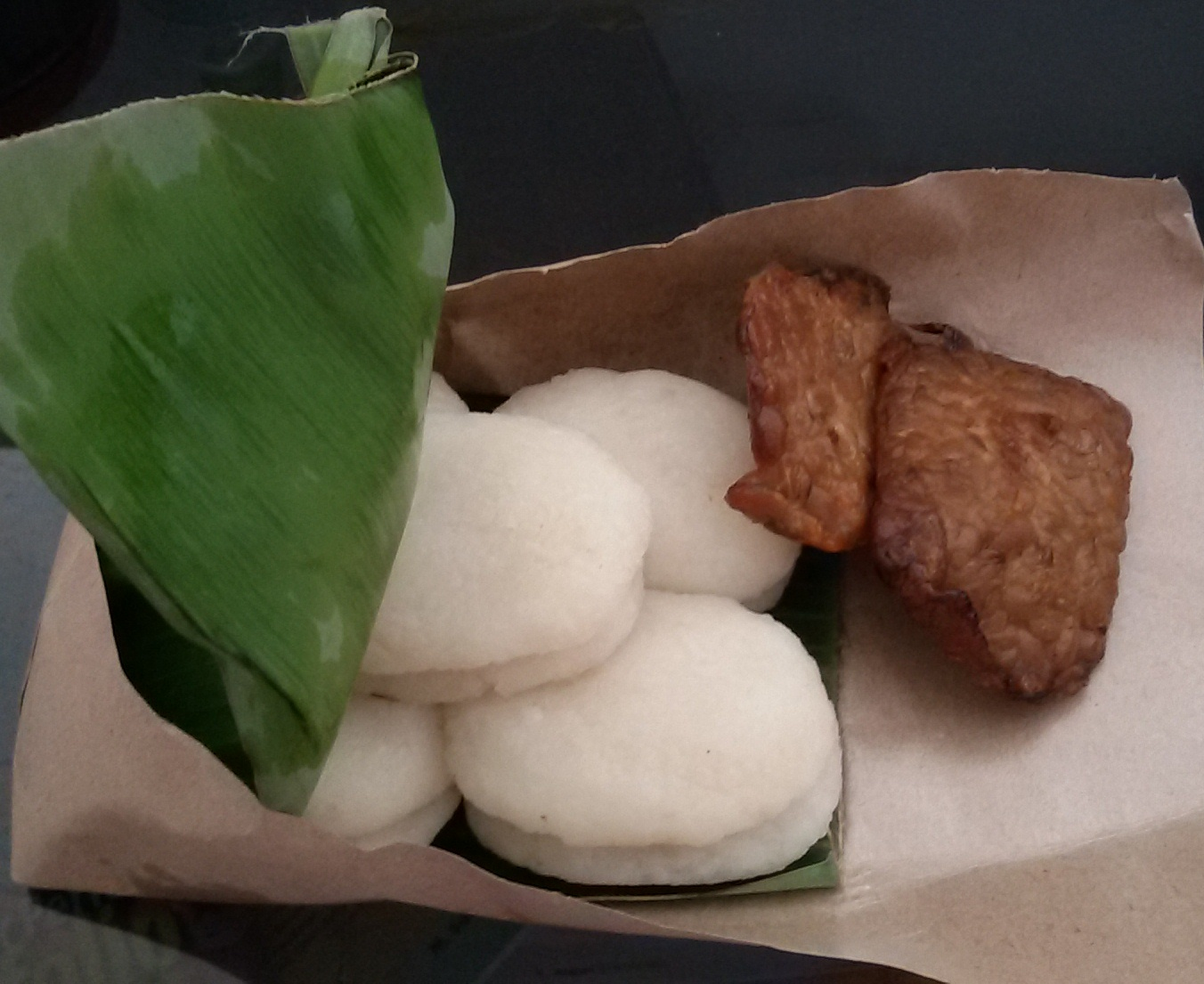 Jadah tempe or jadah bacem